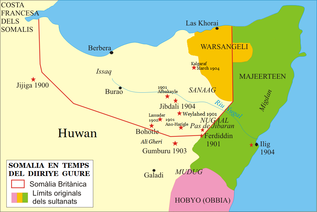 Somàlia in Mad Mullah times